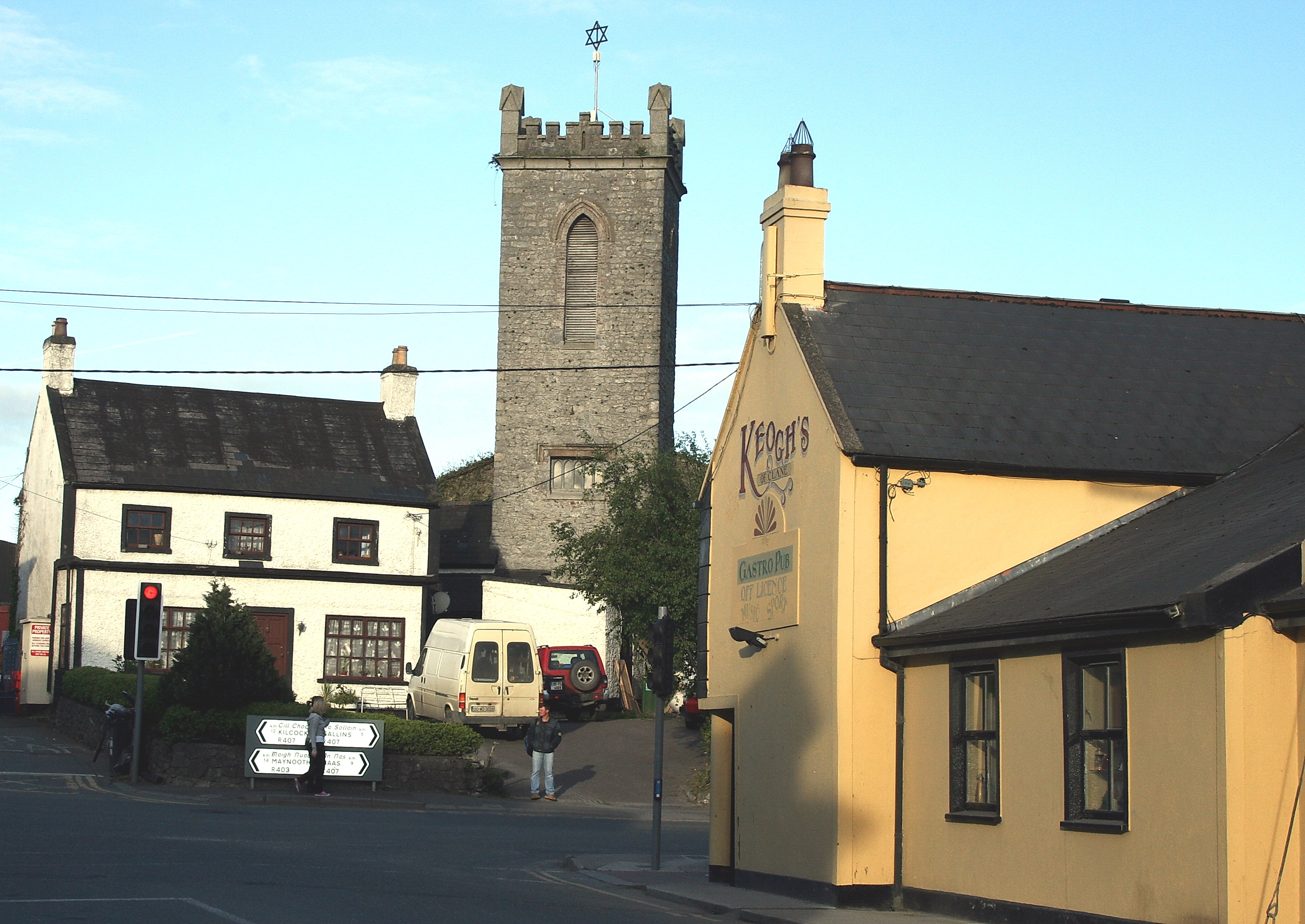 Clane, County Kildare